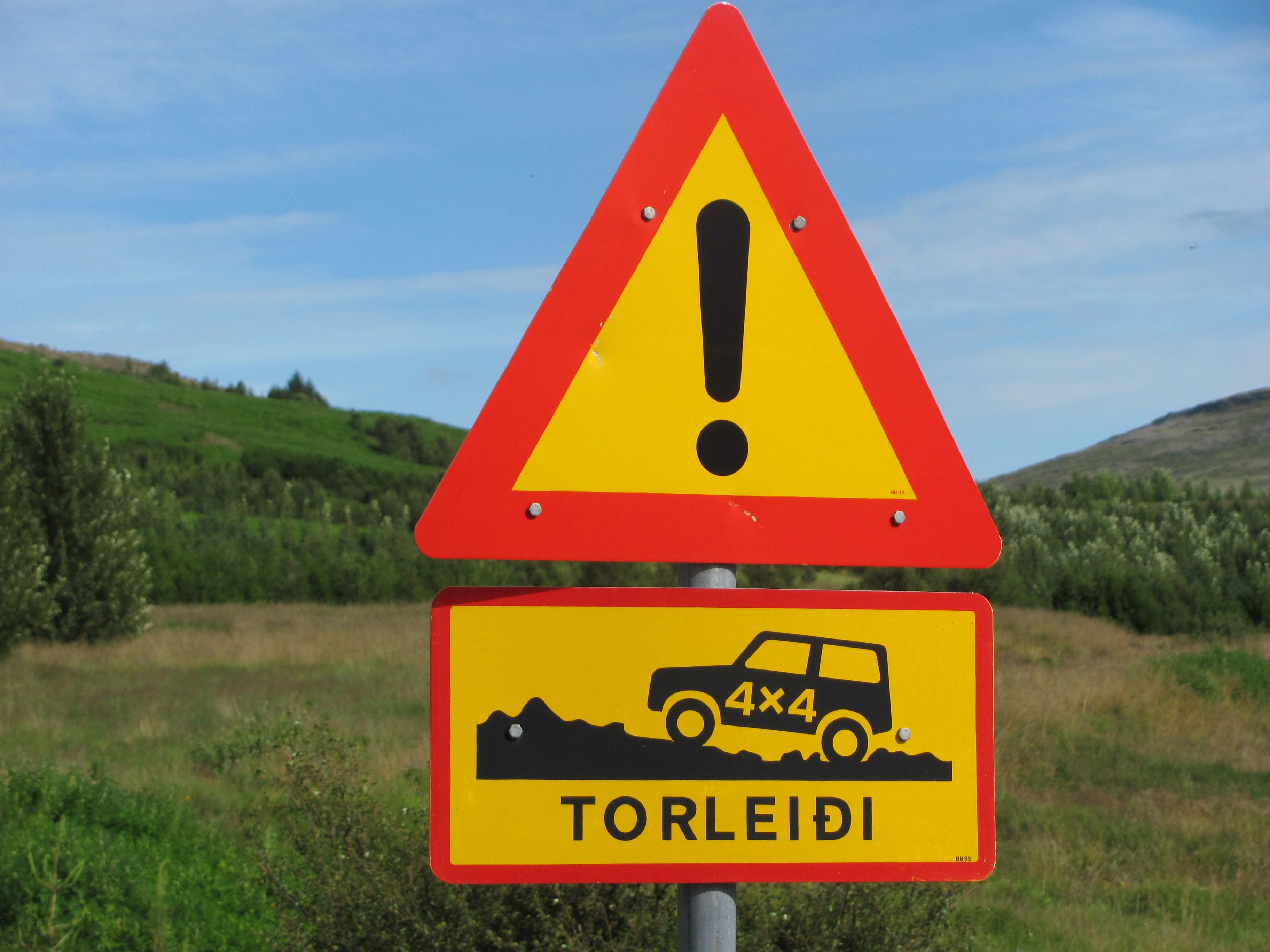 Four wheelers only